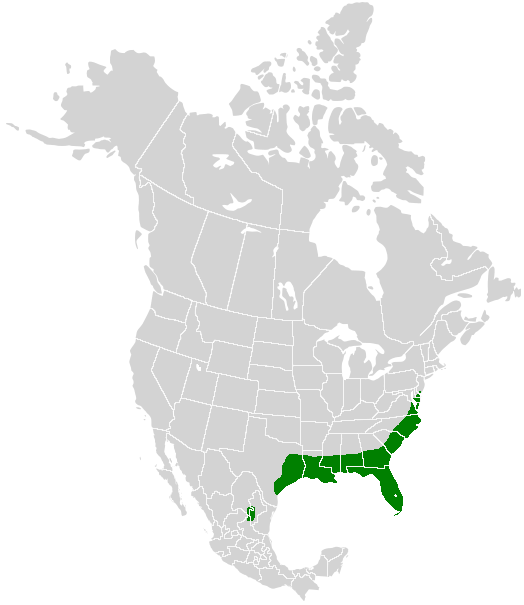 A range map showing the distribution of the Palamedes Swallowtail (Papilio palamedes)